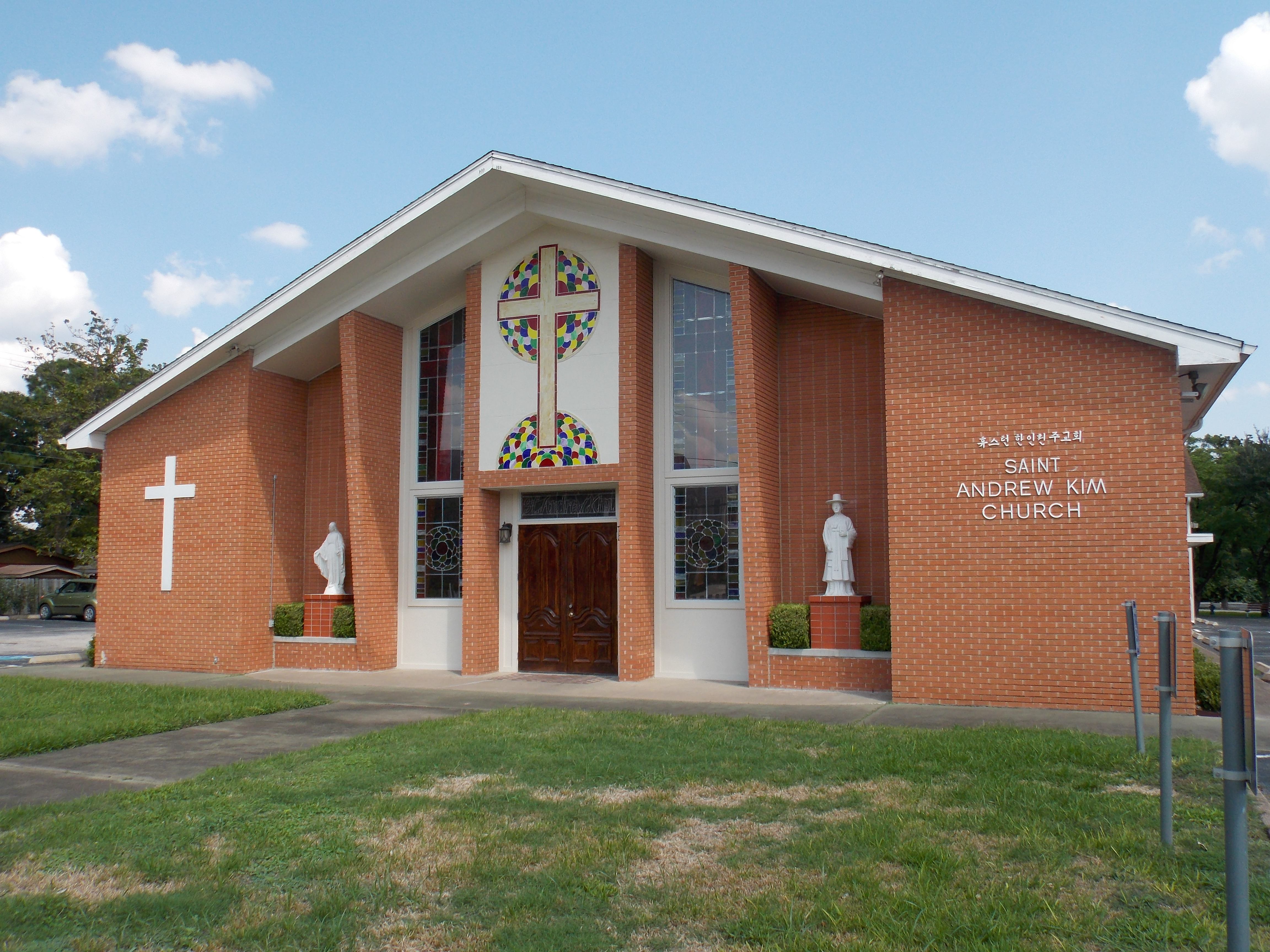 St. Andrew Kim Catholic Church in Houston, Texas (Korean name means "Houston Korean Catholic Church")